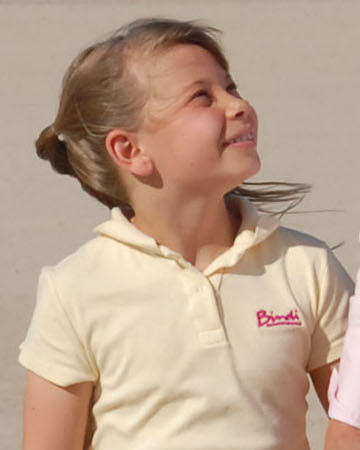 EDWARDS AIR FORCE BASE, Calif. -- Bindi Irwin visit Edwards on Sept. 6 to film a segment for their television show "Bindi the Jungle Girl." The program airs on the Discovery Kids channel.